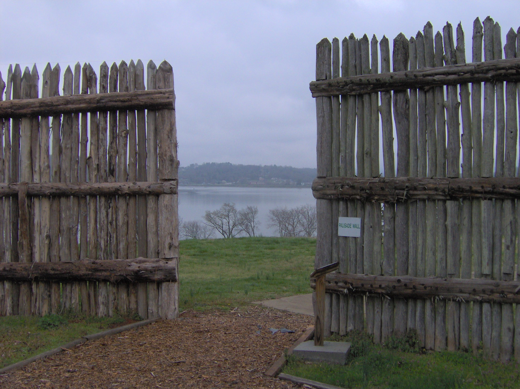 The reconstructed east palisade of Fort Southwest Point in Kingston, Tennessee, in the southeastern United States. The palisade's ditch was uncovered by archaeologists in the 1980s, allowing researchers to determine the fort's layout. Botanist Andre Micheaux mentioned the palisade in 1802. The Clinch River is in the distance.